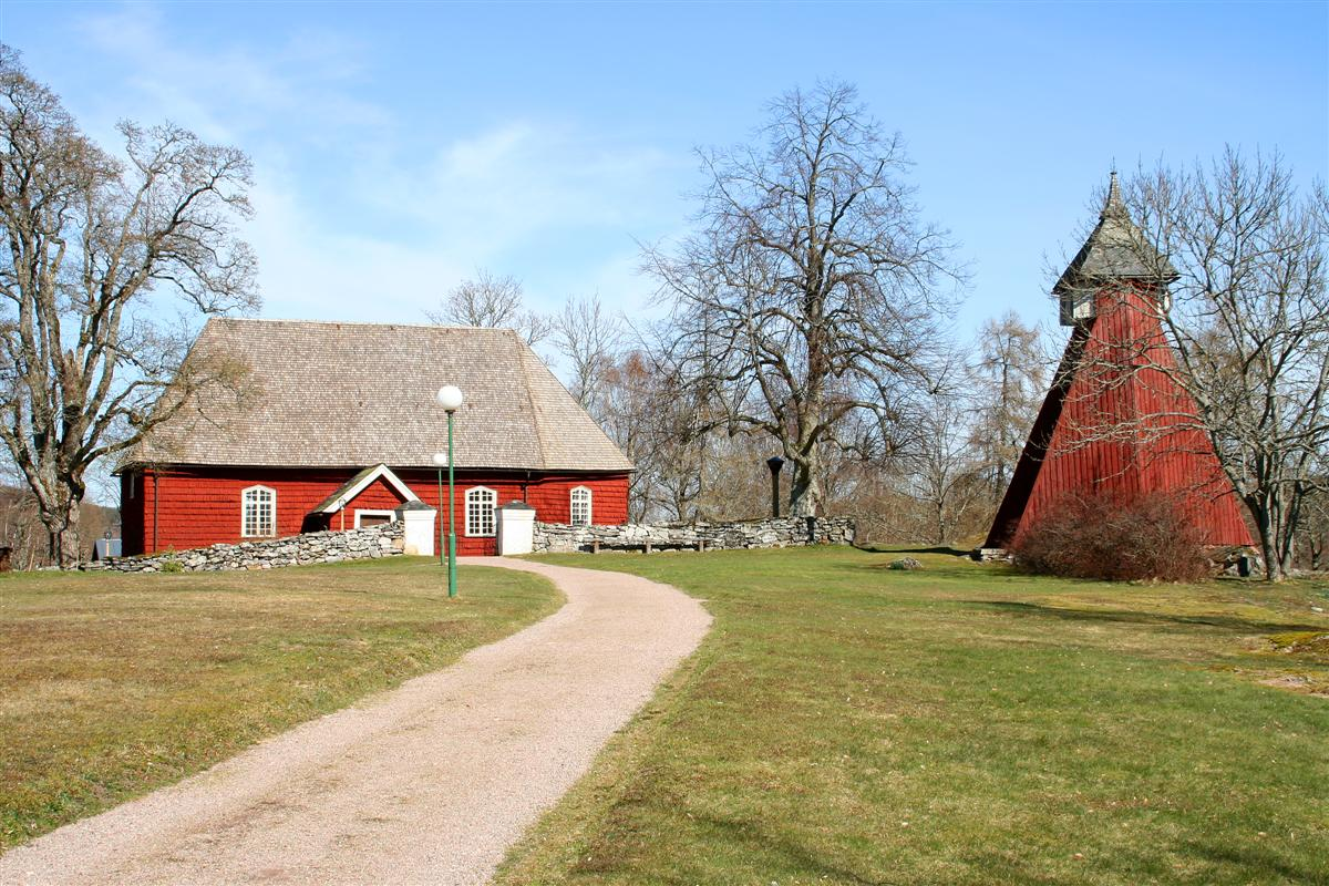 Fröskog Church